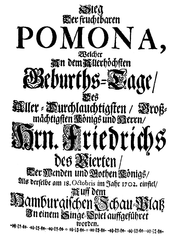 Reinhard Keiser - Sieg der fruchtbaren Pomona - titlepage of the libretto from 1702